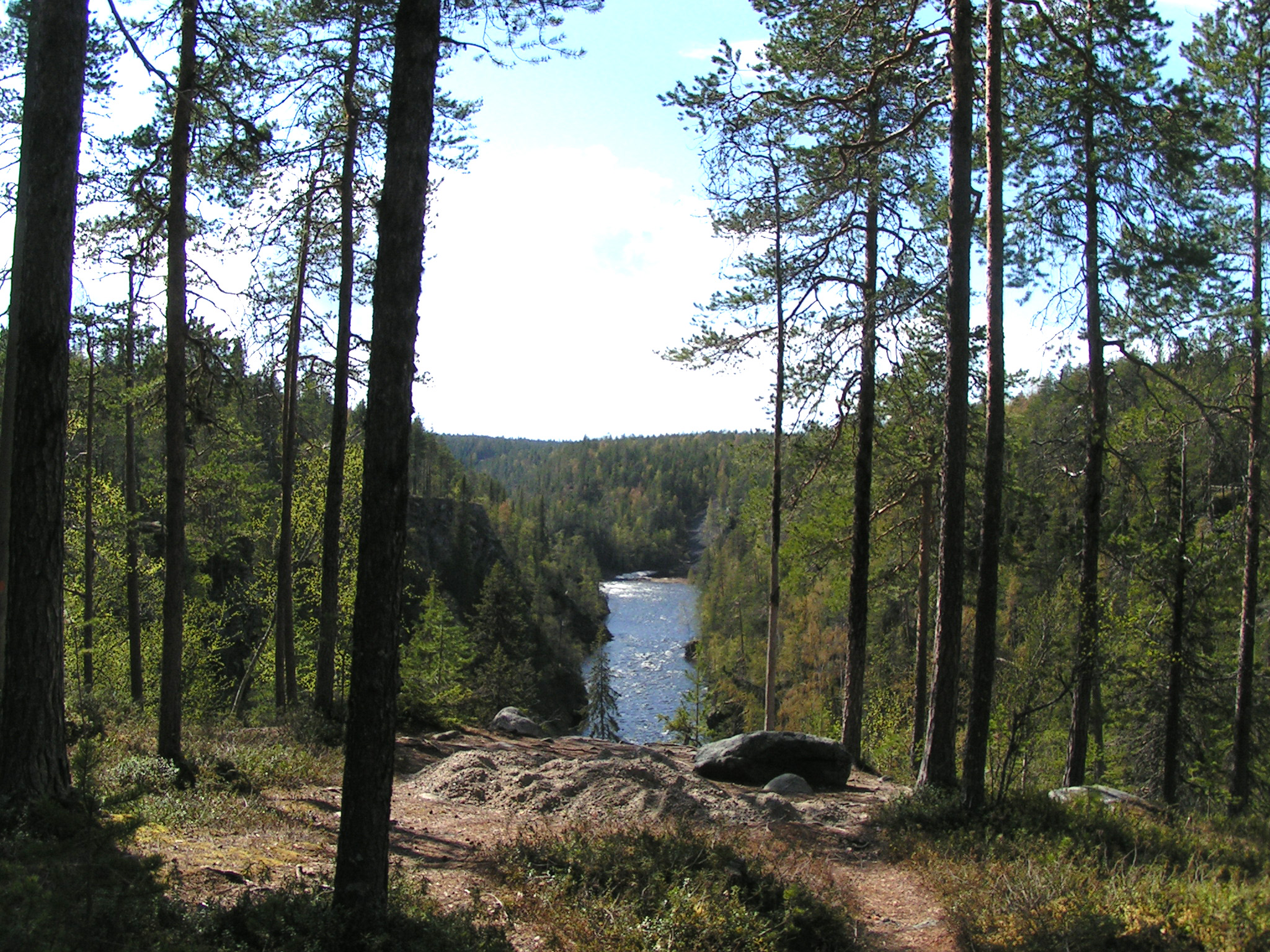 A sight along the Pieni Karhunkierros (Little Bear-Trail) in Oulanka National Park.